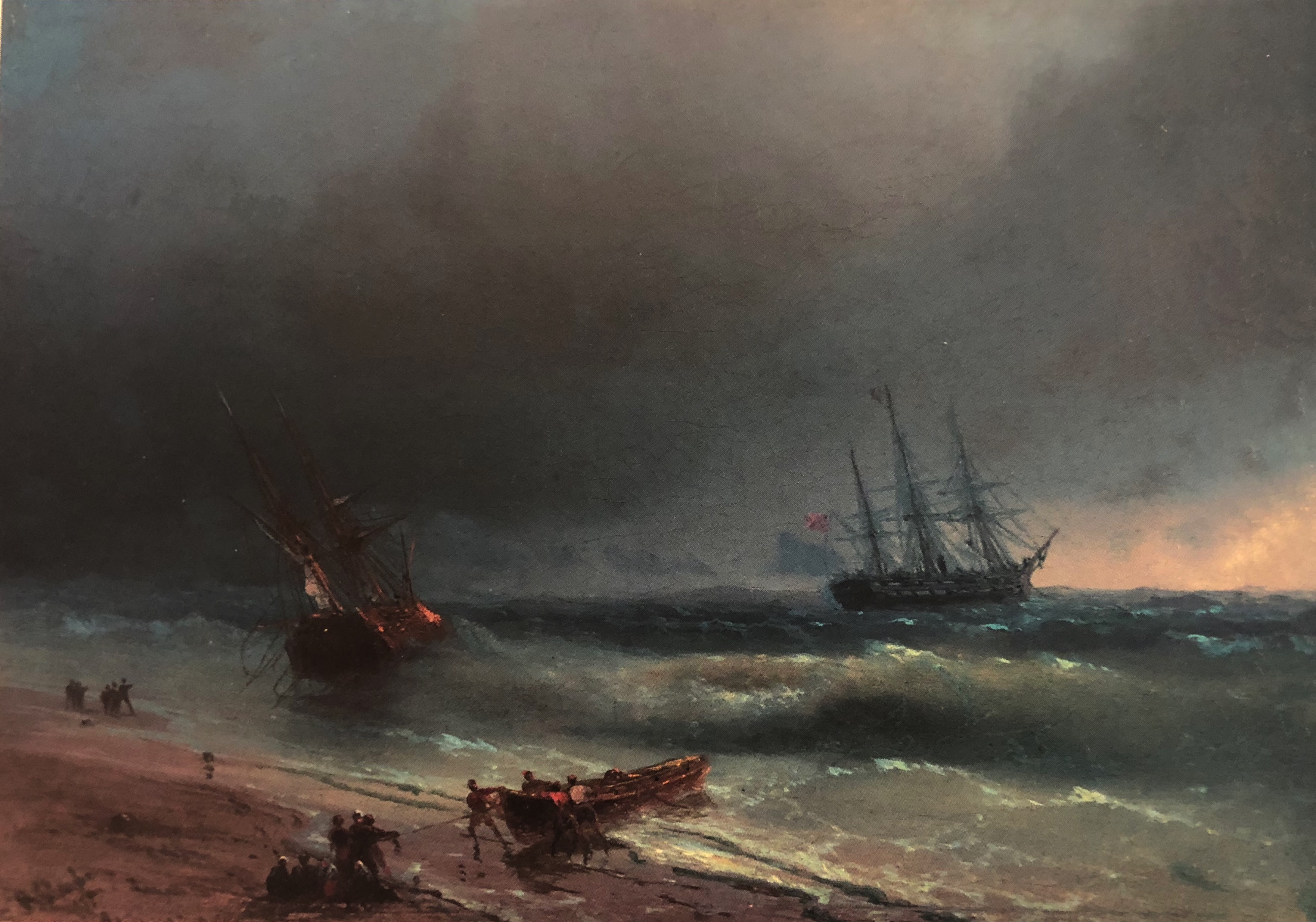 painting Storm off the Beach